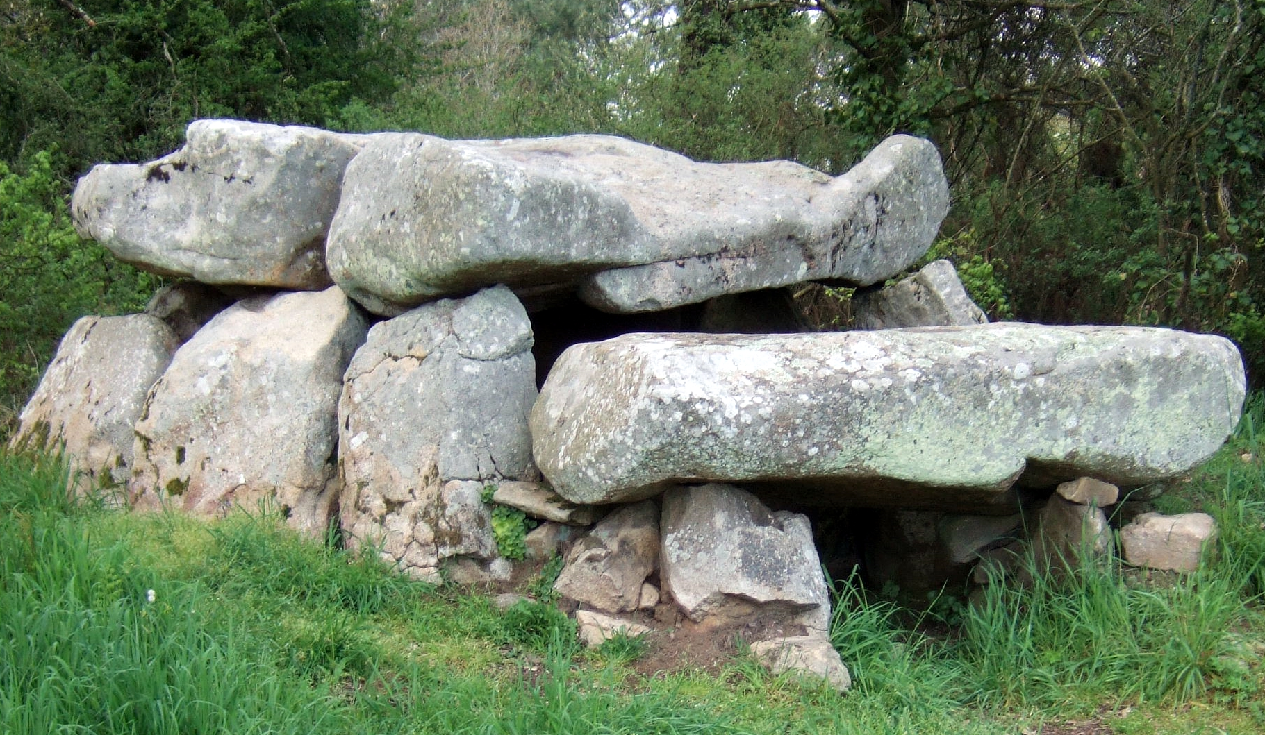 cropped version of Roch_Feutet dolmen